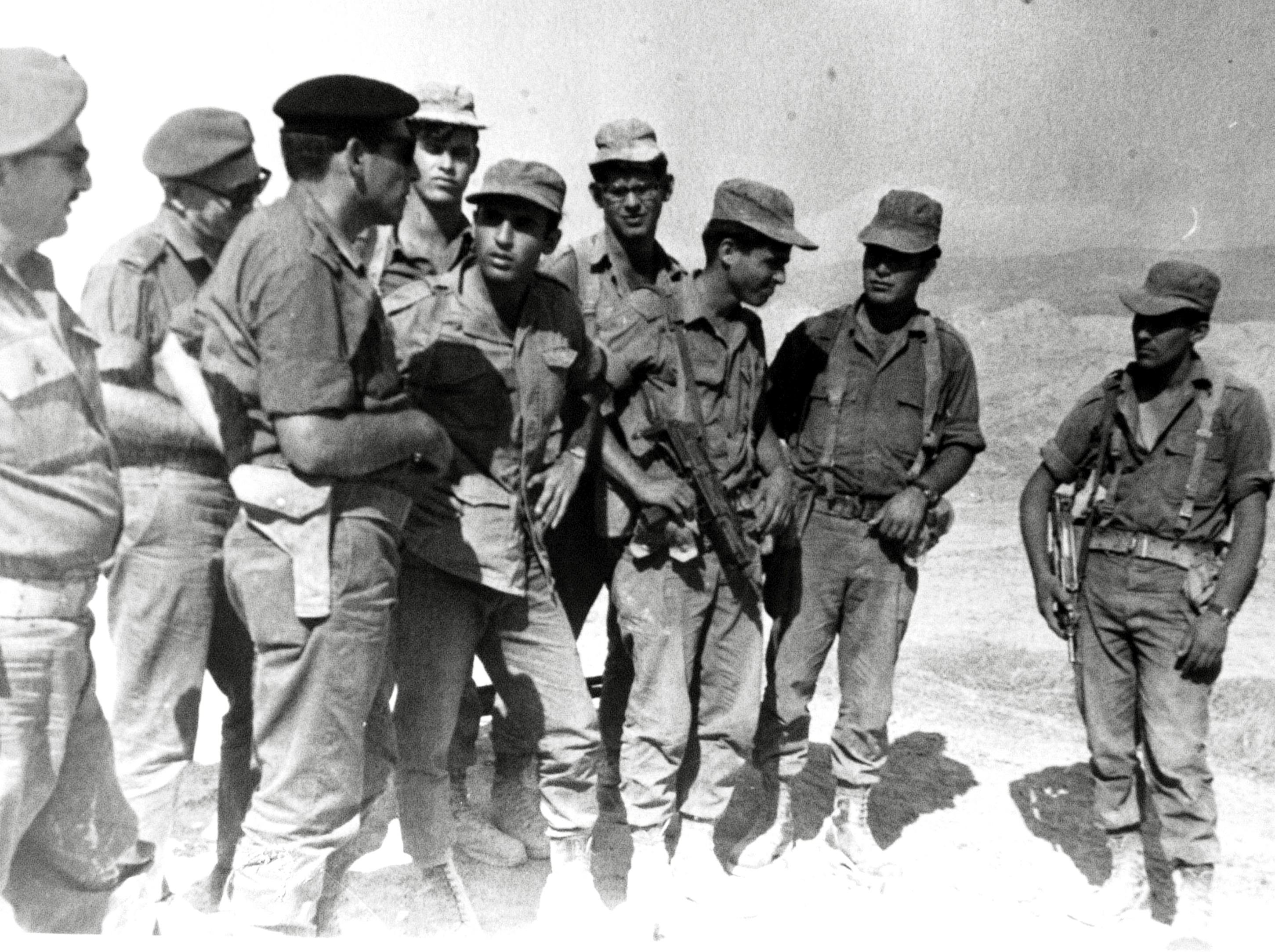 C.O. OF CENTRAL COMMAND RECHAVAM ZEEVI AND SERGEANT SHAUL MOFAZ (AT HIS RIGHT), AFTER A PURSUIT IN THE JORDAN RIFT.